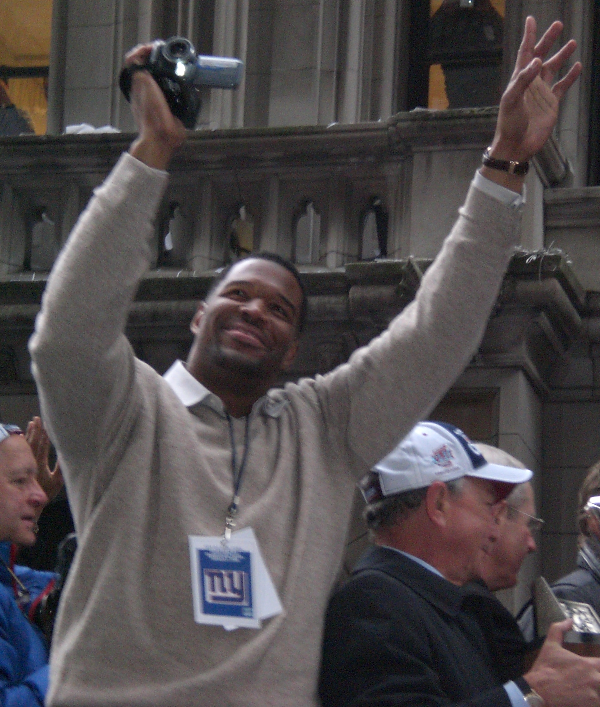 Michael Strahan during a post superbowl parade.